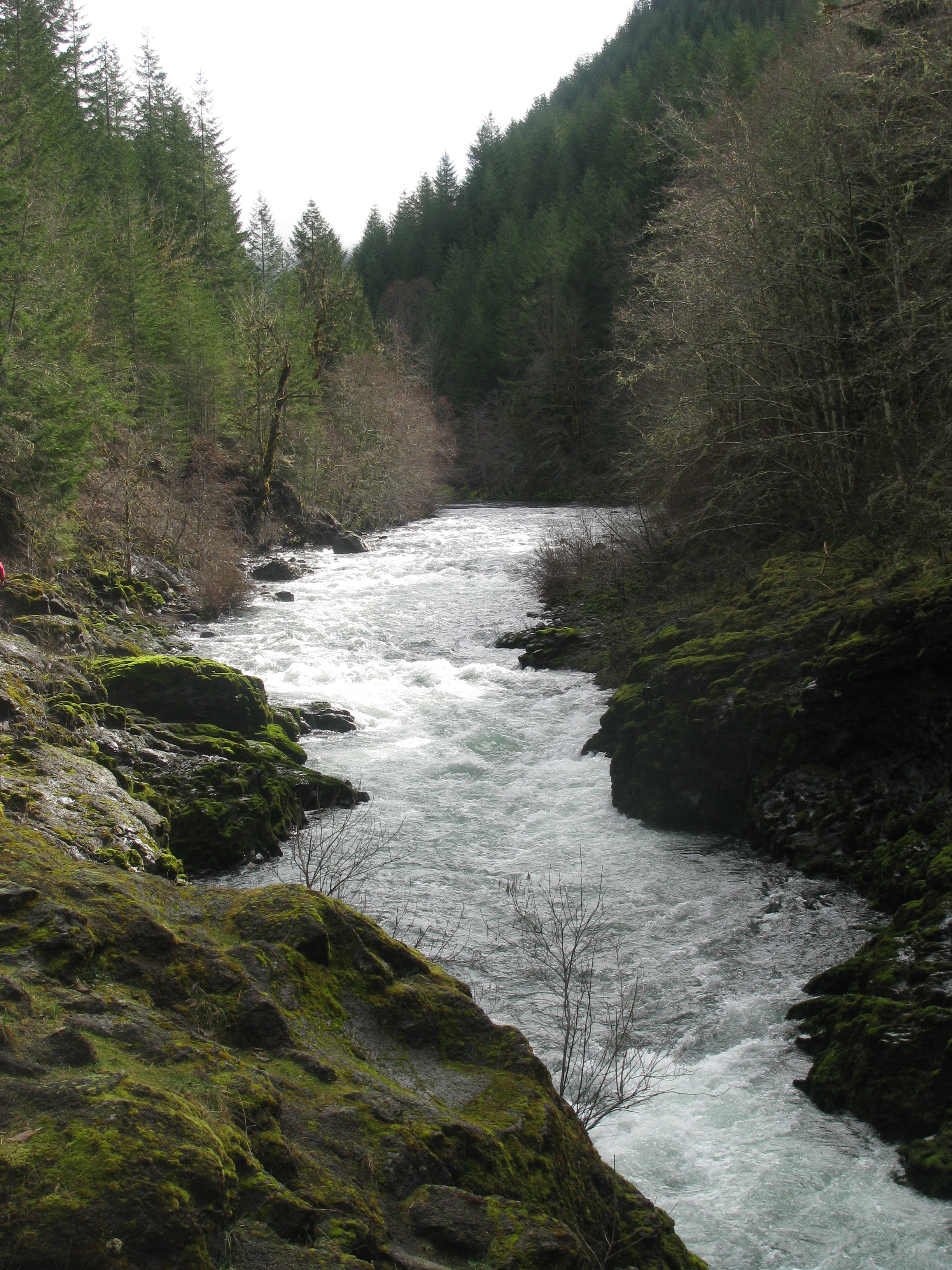 The upper Molalla River.